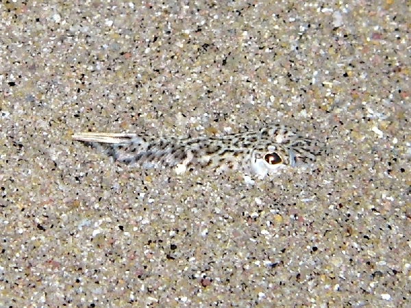 Echiichthys vipera photographed in Limnos, Greece.